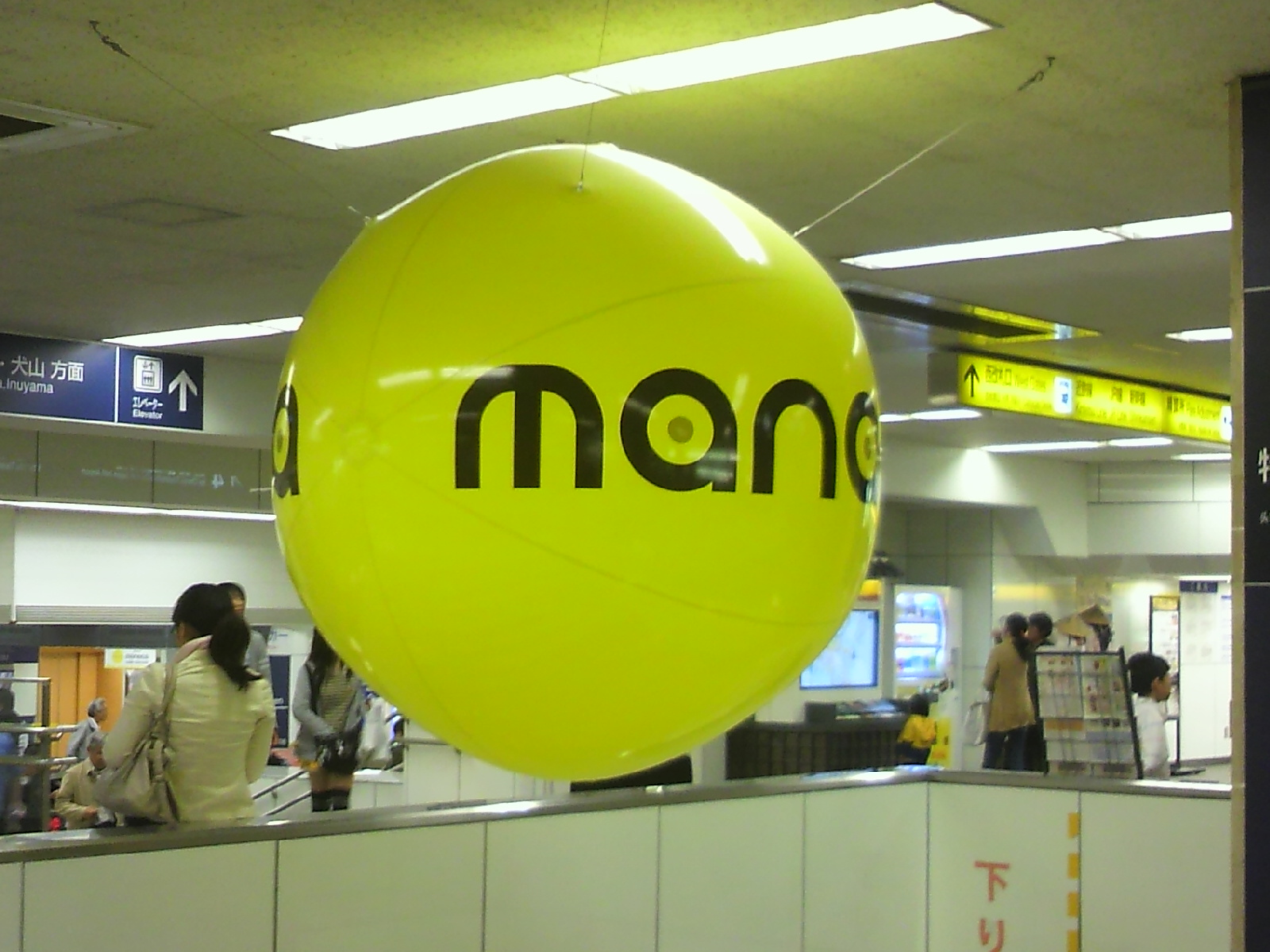 Manaca advert(?) balloon